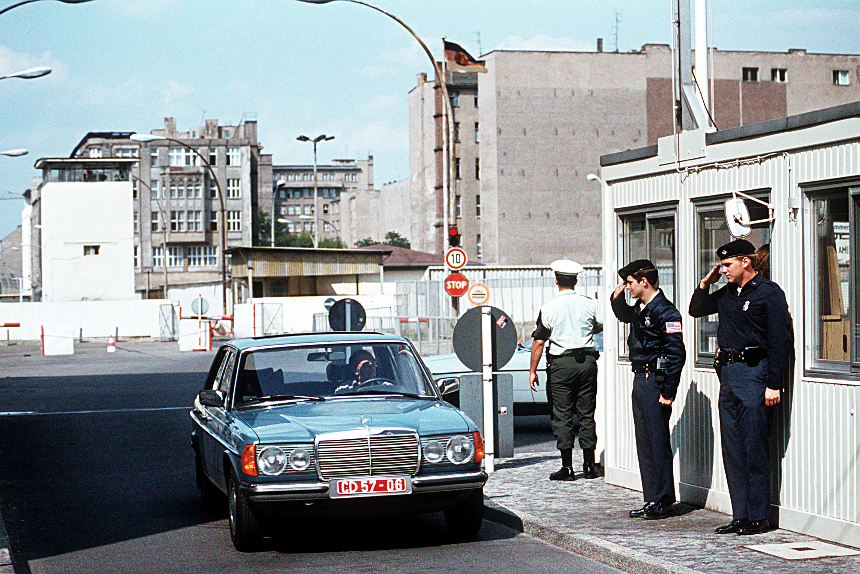 US security policemen salute a passing vehicle with white on red vehicle registration plate "CD 57-06" at Checkpoint Charlie, the allied entry point into East Berlin.